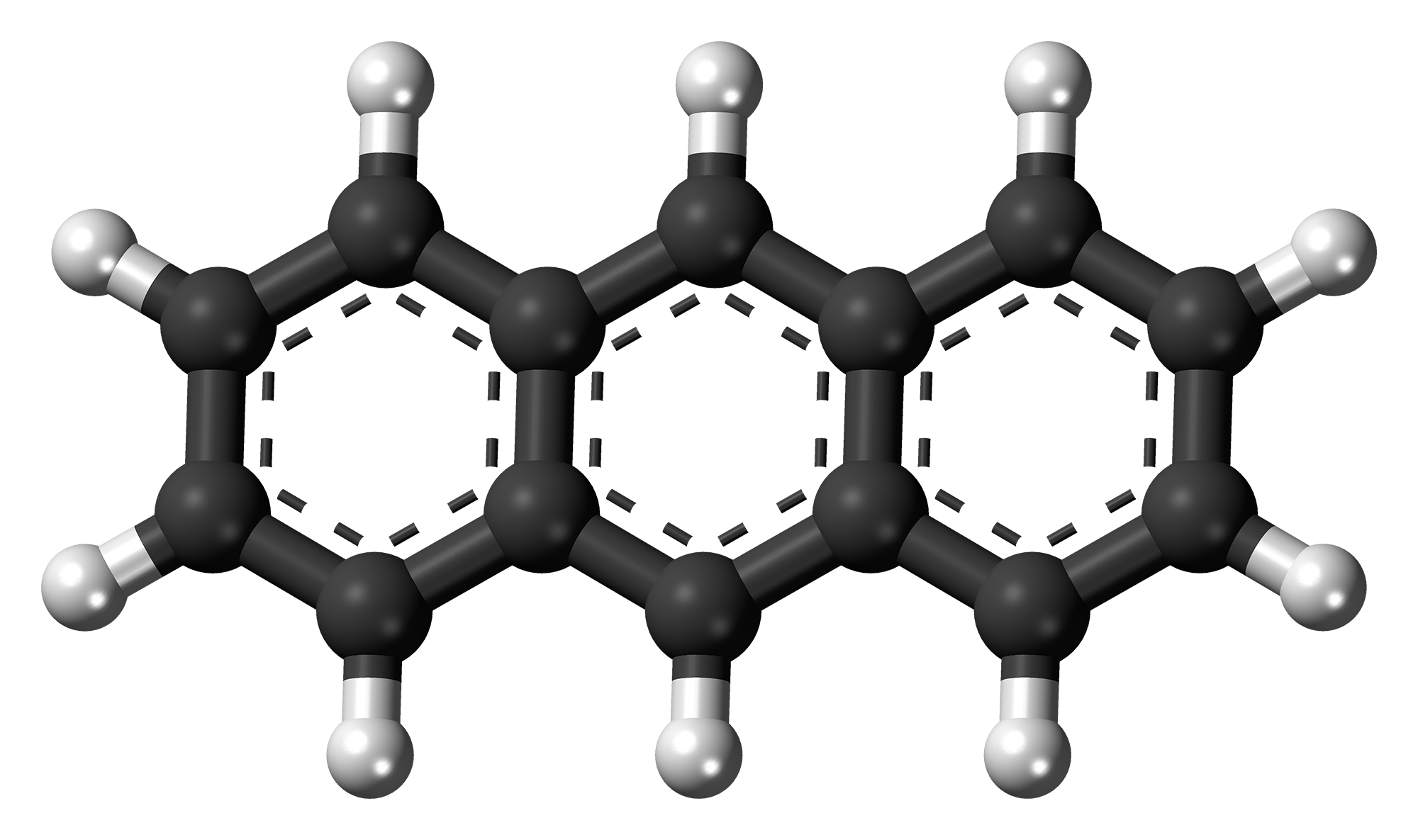 Ball-and-stick model of the anthracene molecule, a polycyclic aromatic hydrocarbon found in coal tar and used to make dyes. Color code: Carbon, C: black Hydrogen, H: white